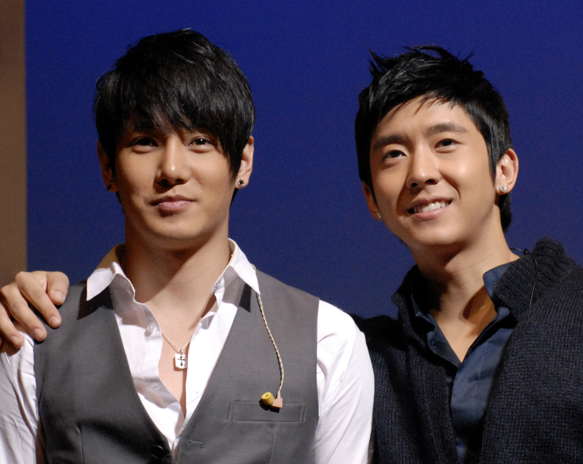 Hwanhee(left)and Brian in Kobe,Japan